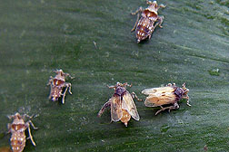 Photograph of Megamelus scutellaris